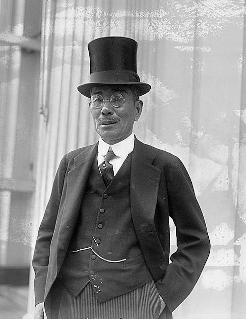 Raita Fujiyama